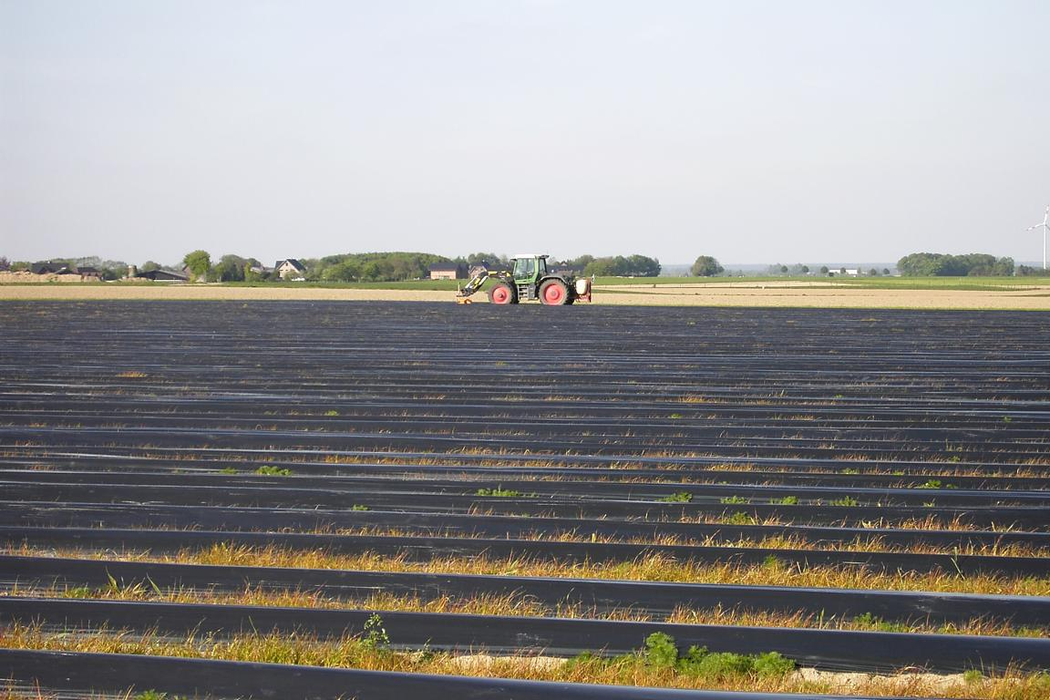 Fendt Xylon with field sprayer in field where strawberrys will be planted